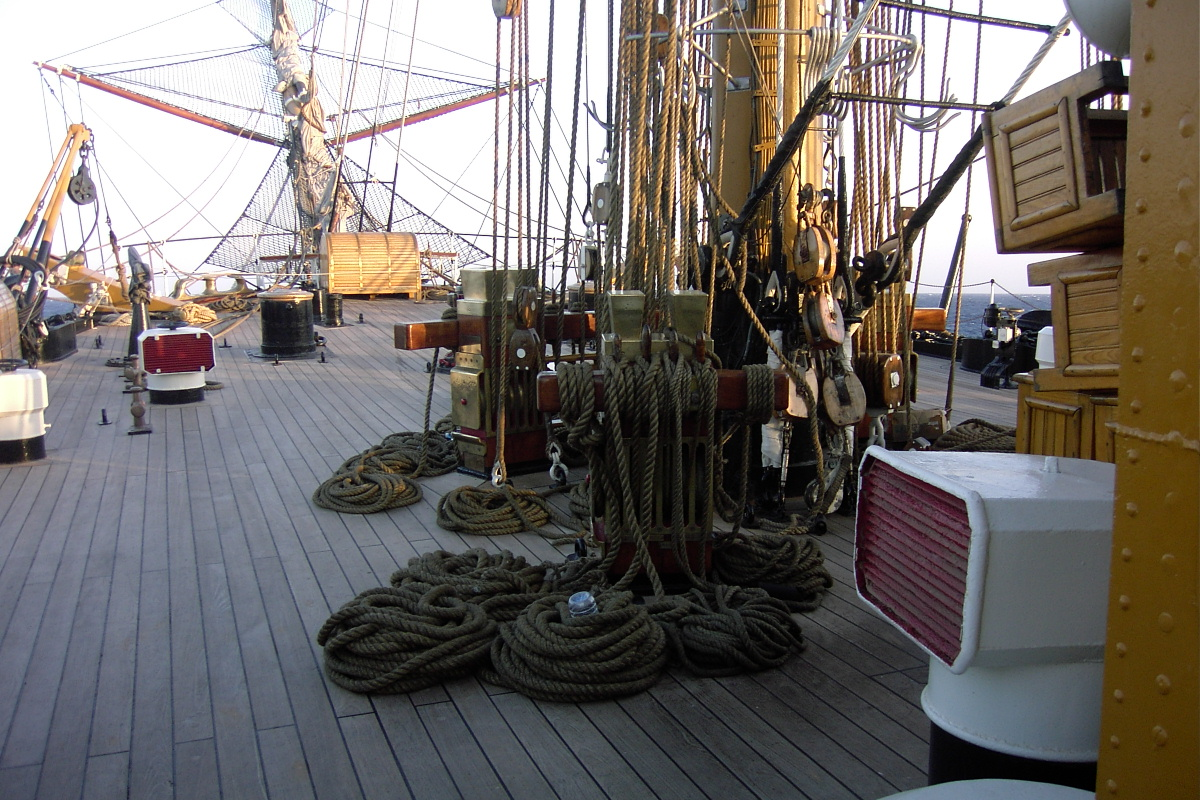 Exif JPEG